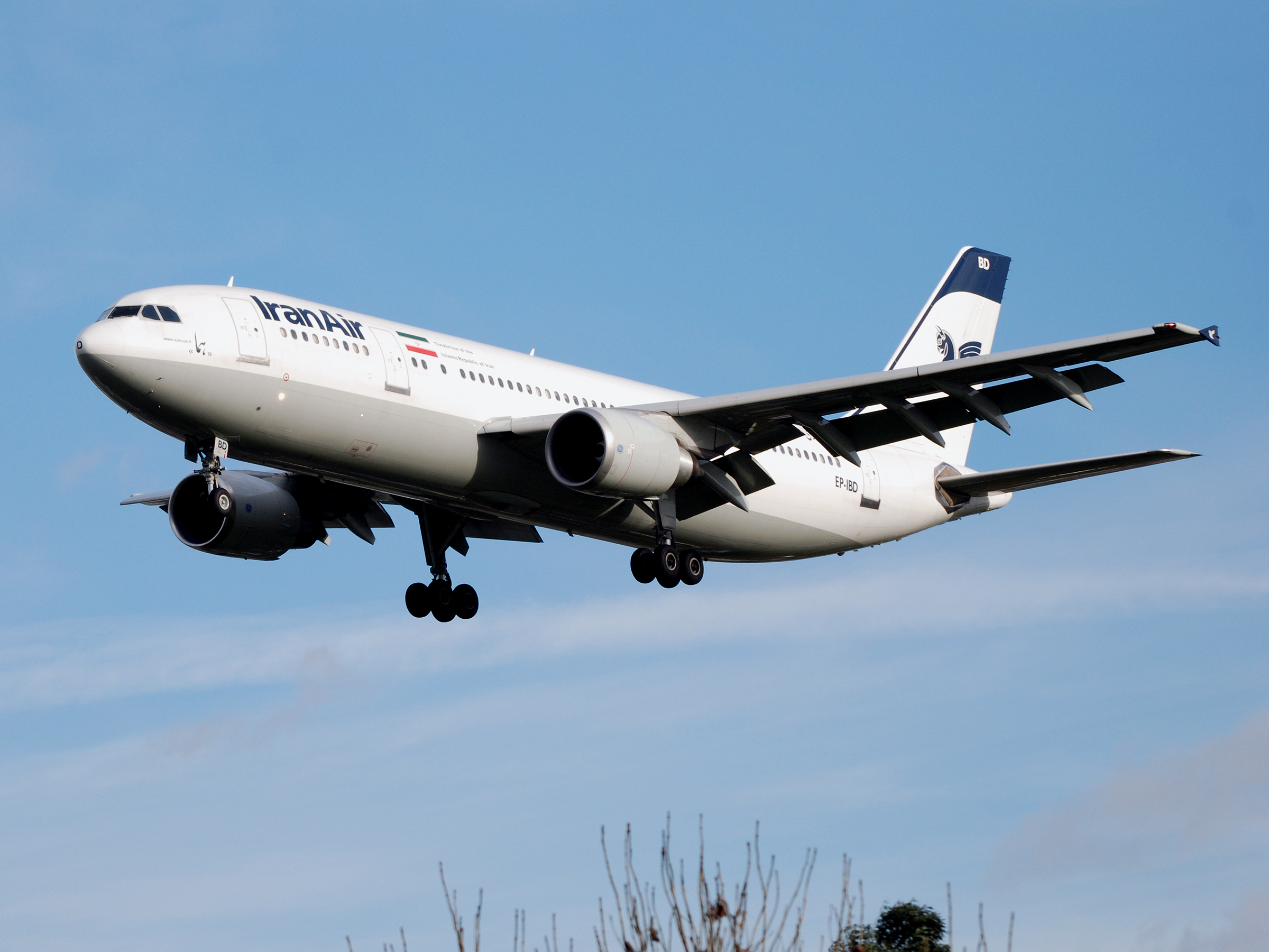 Myrtle Avenue,Heathow,Nov 2008